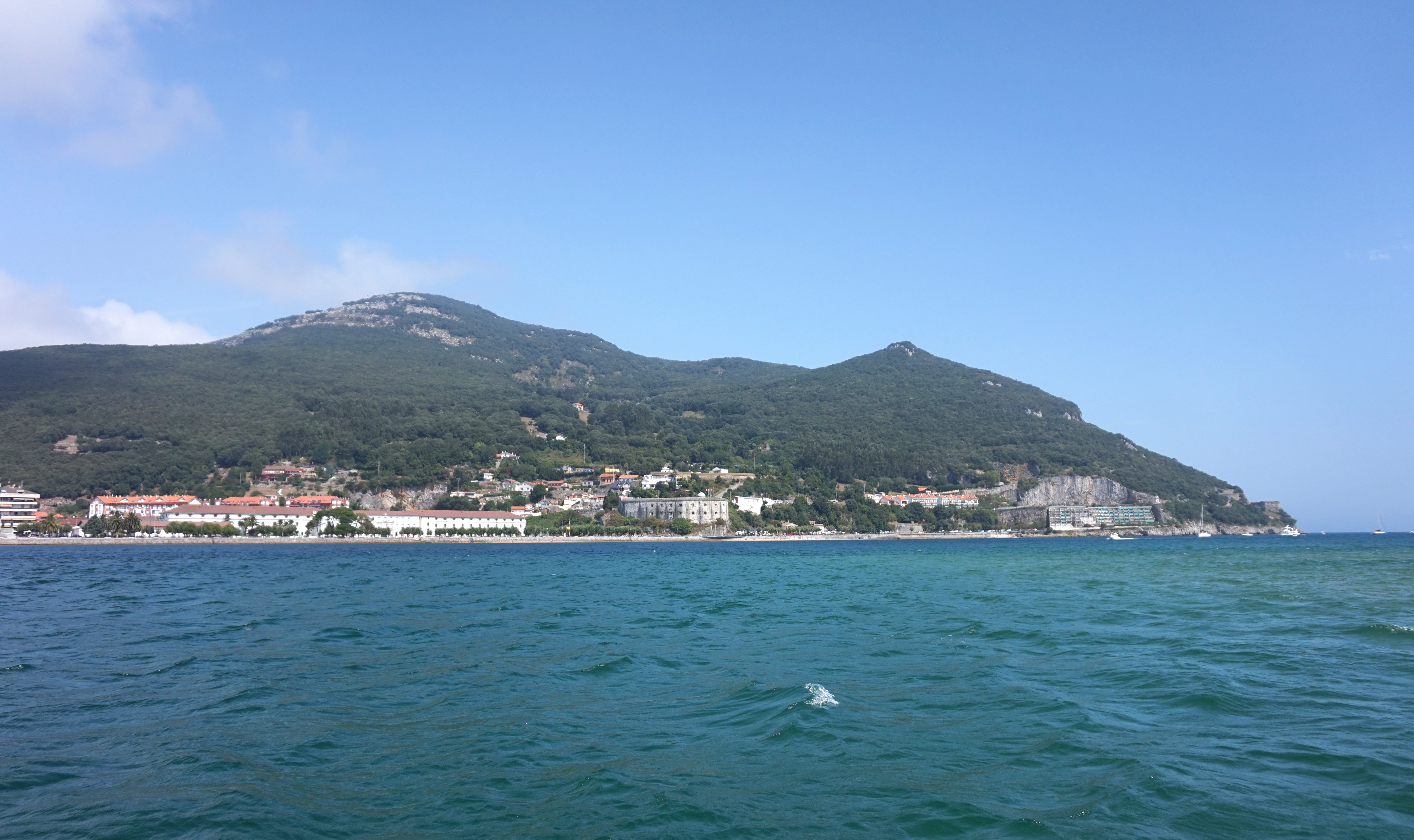 View of Santoña, Spain.This photograph was taken with a Sony ILCE-5000